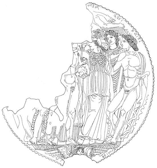 Etruscan Bronze Mirror Fragment with Presentation of Winged Baby to Menrva. 300 BC